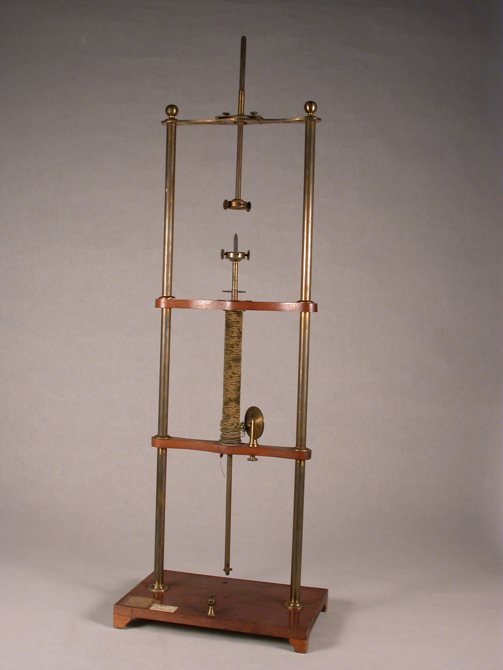 photographie : Francis GIRES A.S.E.I.S.T.E lycée Guez de Balzac Angoulême